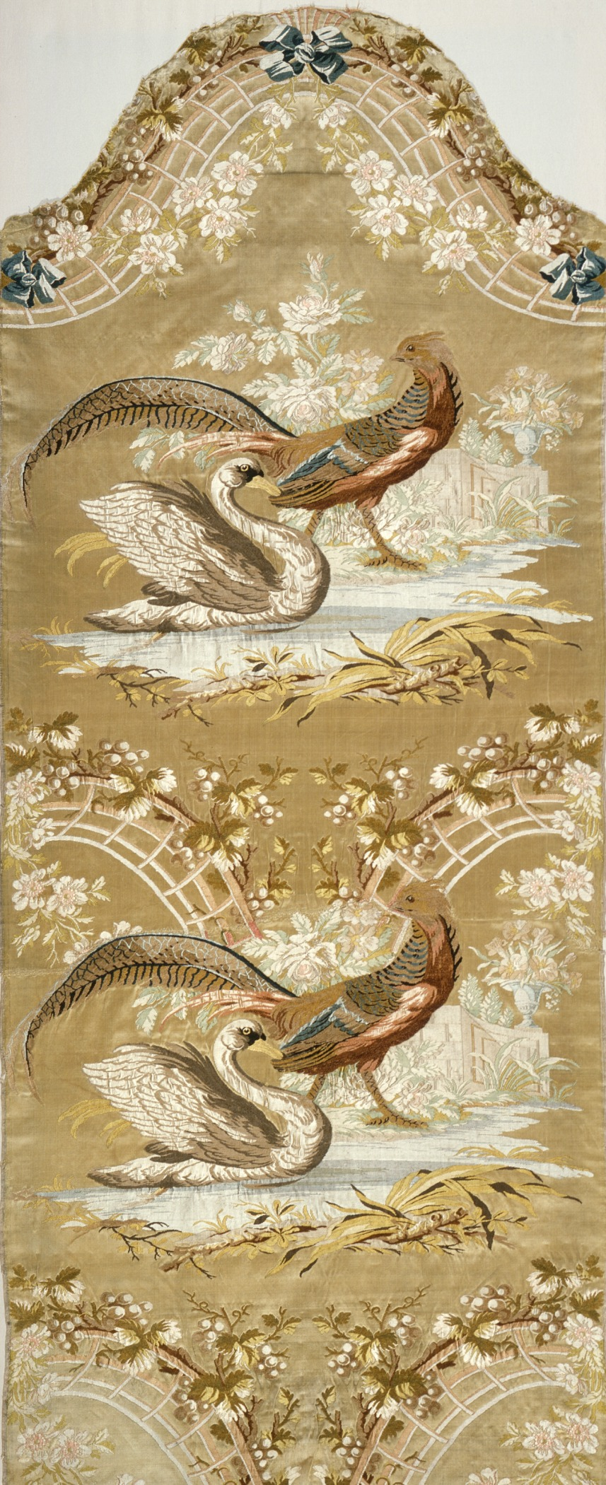 France, Lyon, circa 1765 Textiles; panels Silk and chenille brocaded on silk satin ground (lampas) 76 x 30 1/2 in. ( 193.04 x 77.47 cm); repeat 54" Costume Council Fund (M.59.1) Costume and Textiles